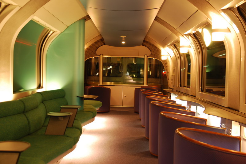 Interior of Cassiopeia Outlook